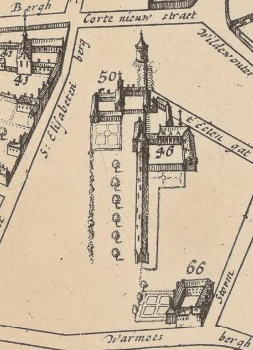 Monasteries of the English Benedictines (50) and Berlaimont (46) in Brussels. Cropped from Bruxella, nobilissima Brabantiæ civitas, 1695